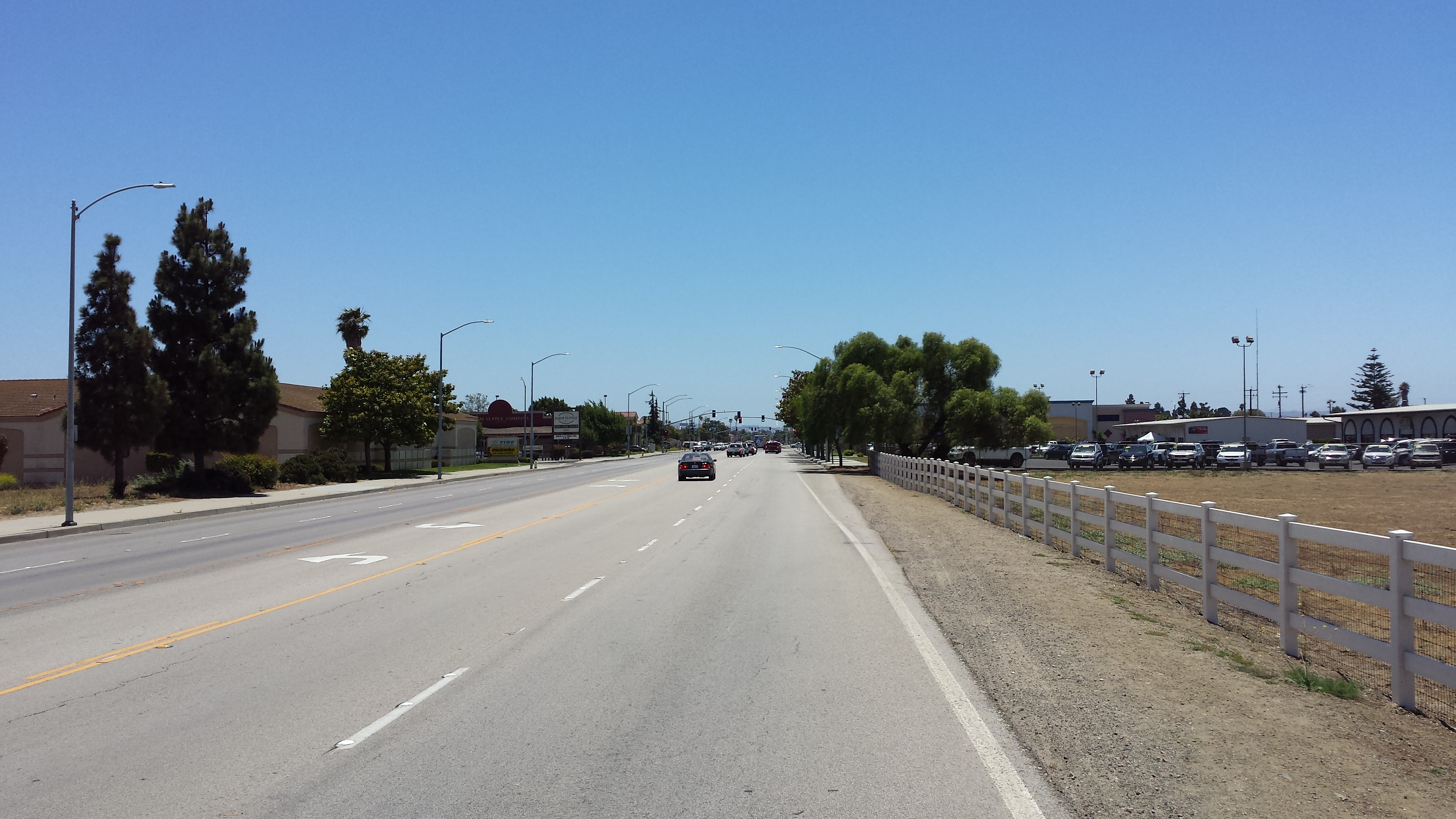 Looking south on California Route 135 in northern Santa Maria, just near its northern terminus on US Route 101